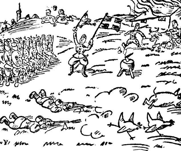 Caricature of the Danish Baltic Auxiliary Corps.